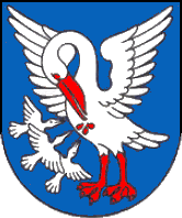 Coat of arms of Lučenec, Slovakia